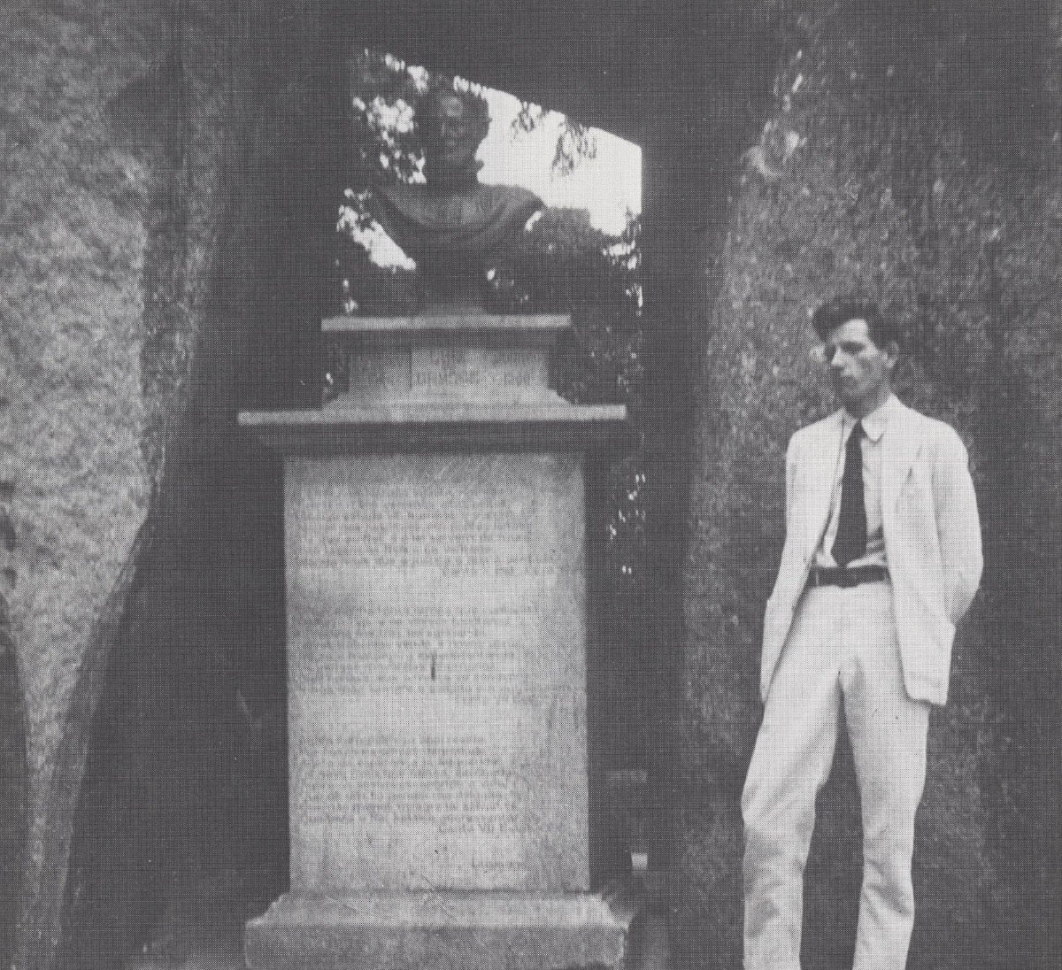 Dutch poet Slauerhoff standing before a bust of Luíz Vaz de Camões in Macao (between 1927 and 1930)